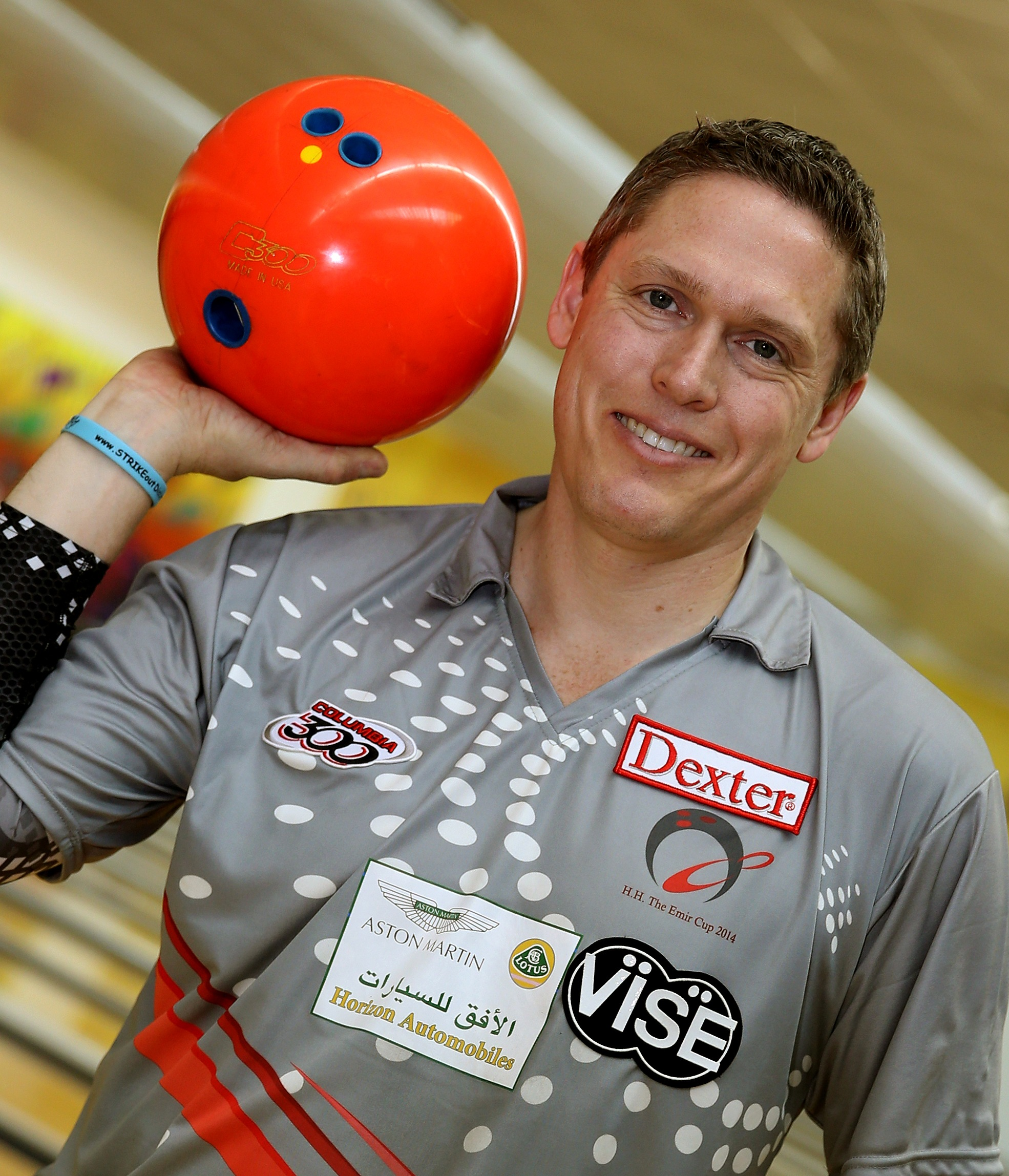 American bowler Chris Barnes is all joy after winning the Emir's Cup title in Doha.